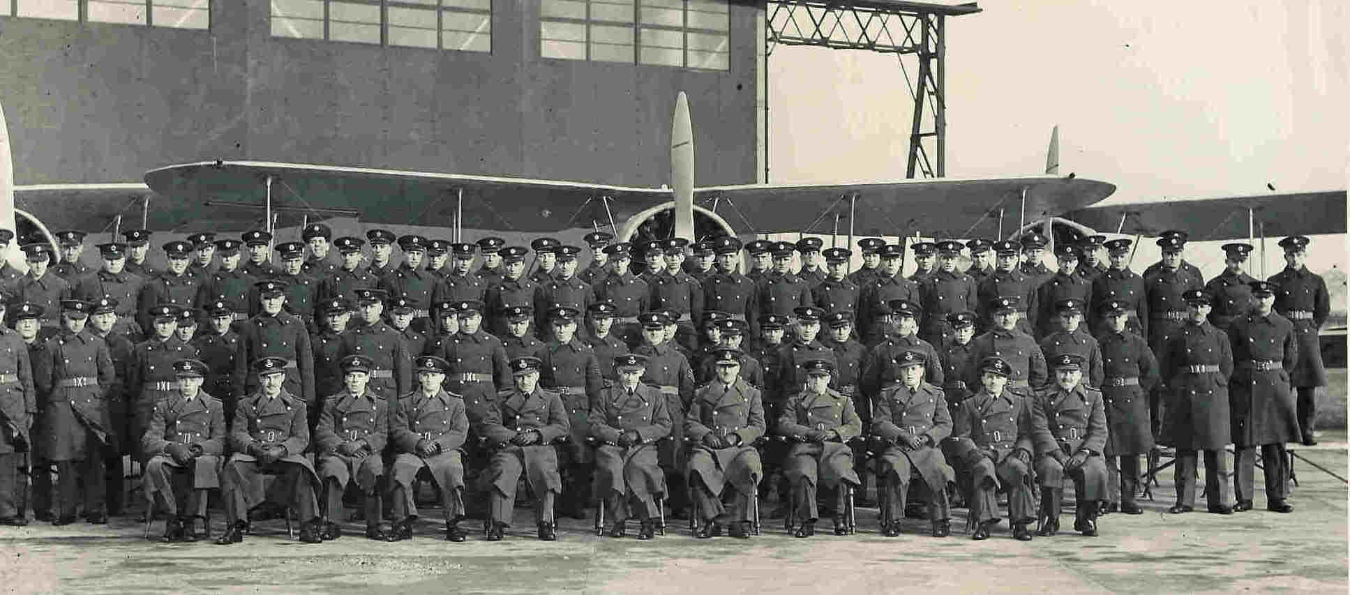 AOC's visit to 46 Sqn at RAF Kenley to present Sqn Plaque 1938